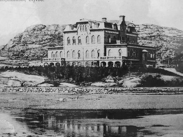 The hospital at Styrso (1908-1951), in the Gothenburg archipelago